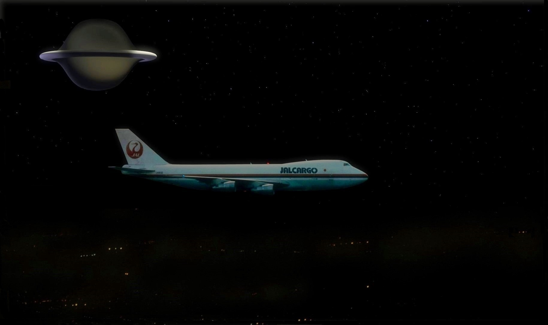 Illustration of the third UFO observed by Captain Terauchi and his crew over Alaska on 17 November 1986, sometimes described as the "mothership", shown here as later described, on the port side or behind the Boeing 747 cargo freighter of Japan Air Lines, as the lights of Fairbanks were beginning to illuminate it. The "mothership" was mainly distinguishable by the presence of two bands of pale white light on its far left and right sides respectively.